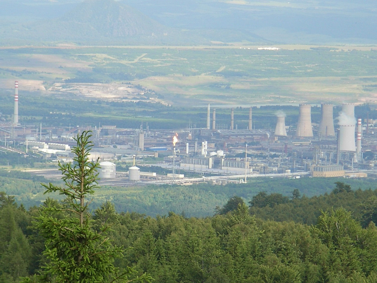 Jeřabina